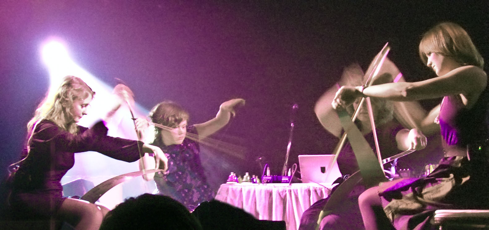 Icelandic musical group Amiina performing in Minneapolis Minnesota, 2007 tour, performing on musical saws.